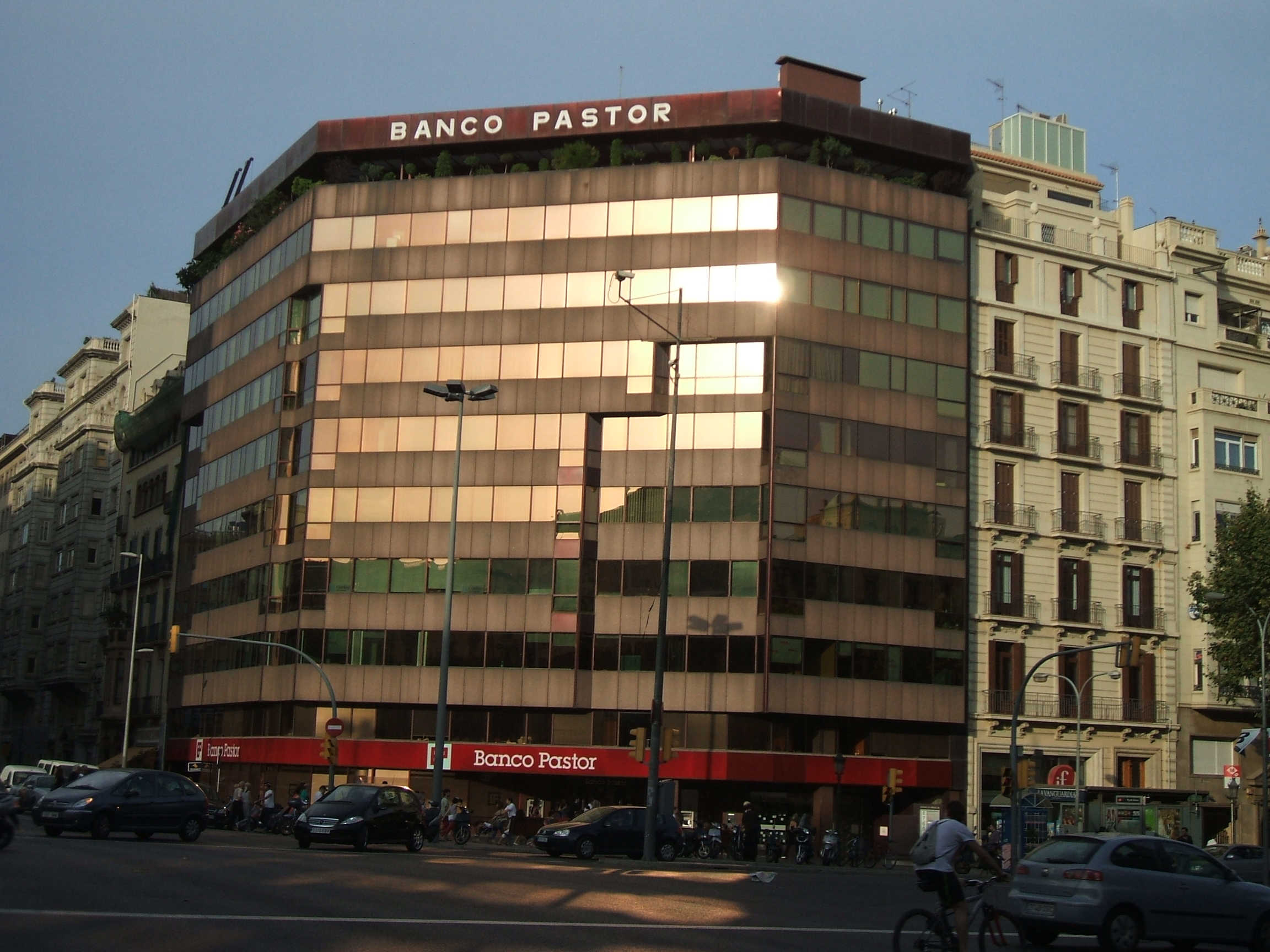 Banco Pastor - Branch in Barcelona - Location: Passeig de Gracia